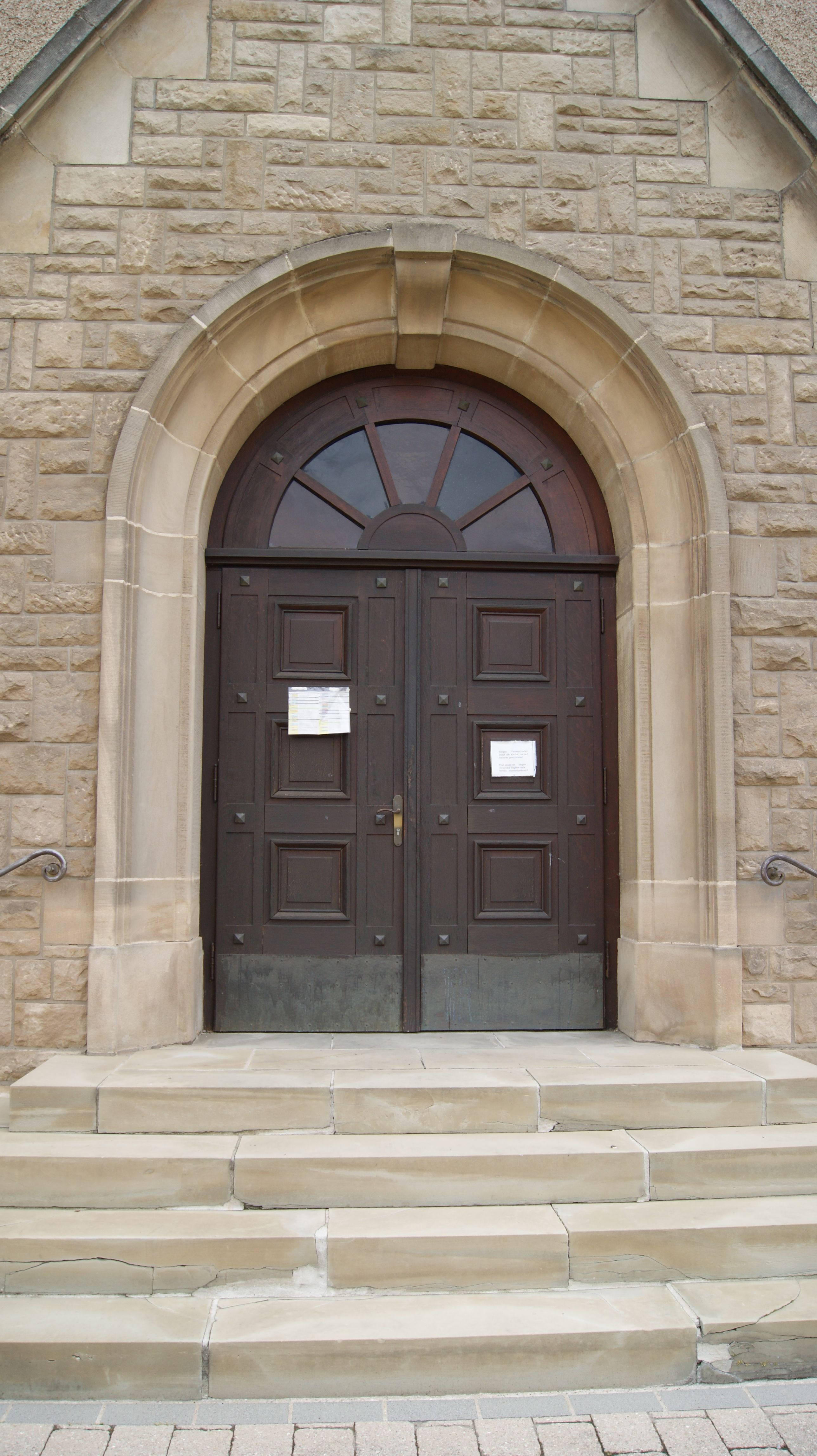 Parish church in Schengen, St. Sauveur.